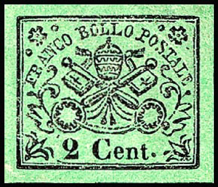 Postage stamp of the Papal States (precursor of the Vatican City), 2 centesimi, 1867, Scott #12.